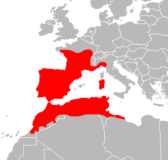 Range map of Natrix maura.